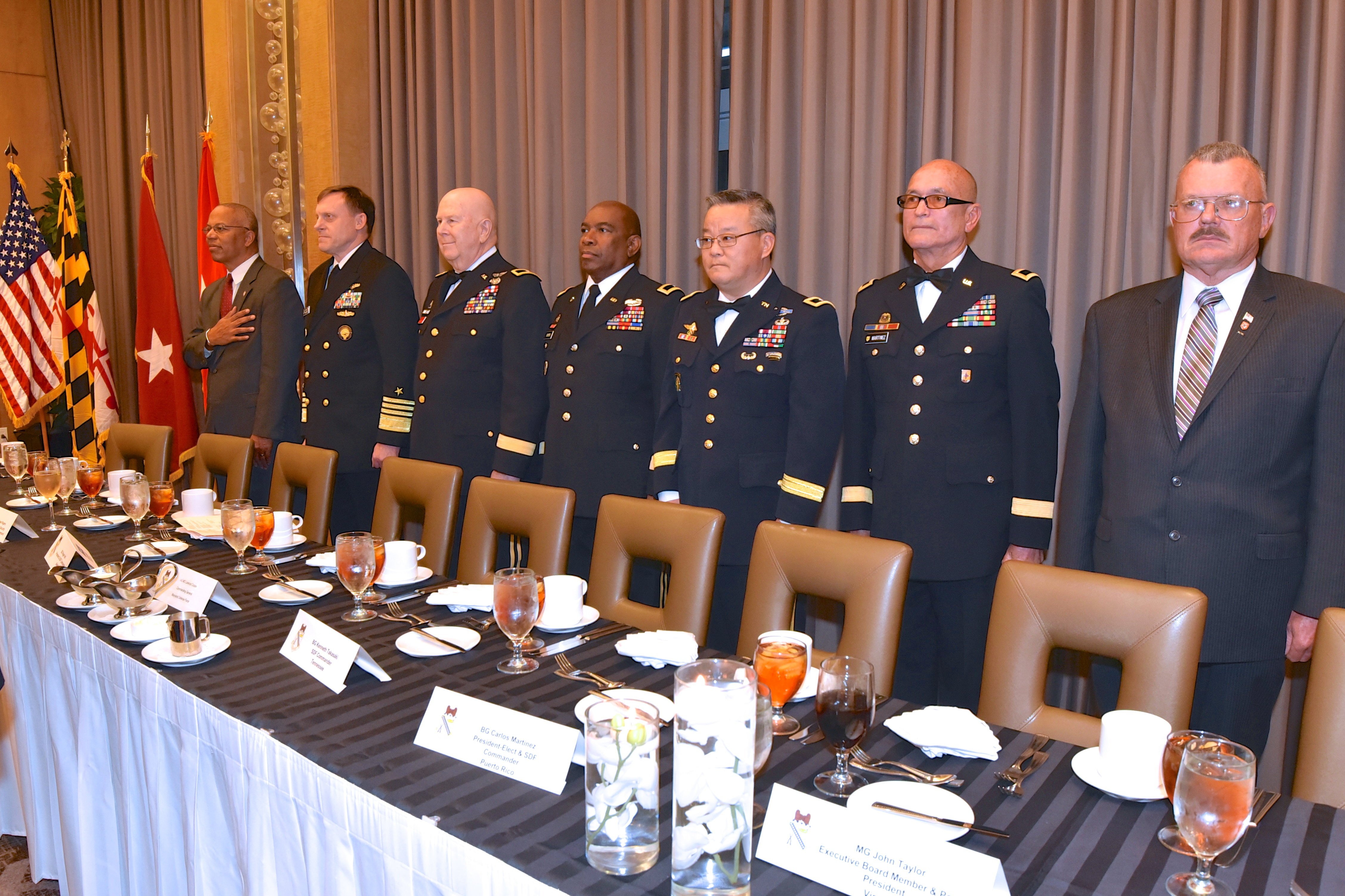 Lt. Governor Addresses the State Defense Force Conference by Joe Andrucyk at The Hotel at Arundel Preserve. 7795 Arundel Mills Blvd. Hanover Maryland 21076